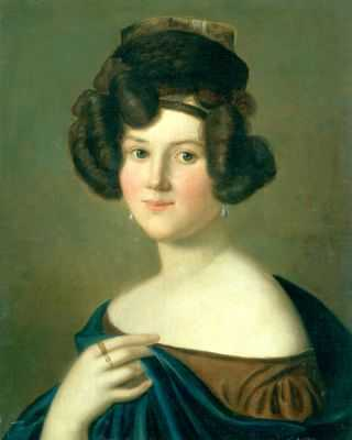 Portrait of Wilhelmina (Minna) Planer (1809-1866), first wife of Richard Wagner